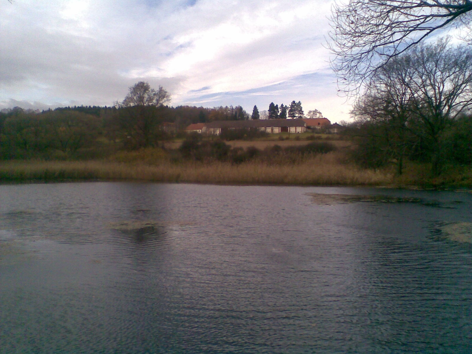 The farm Věžník of pond dam Lačnov